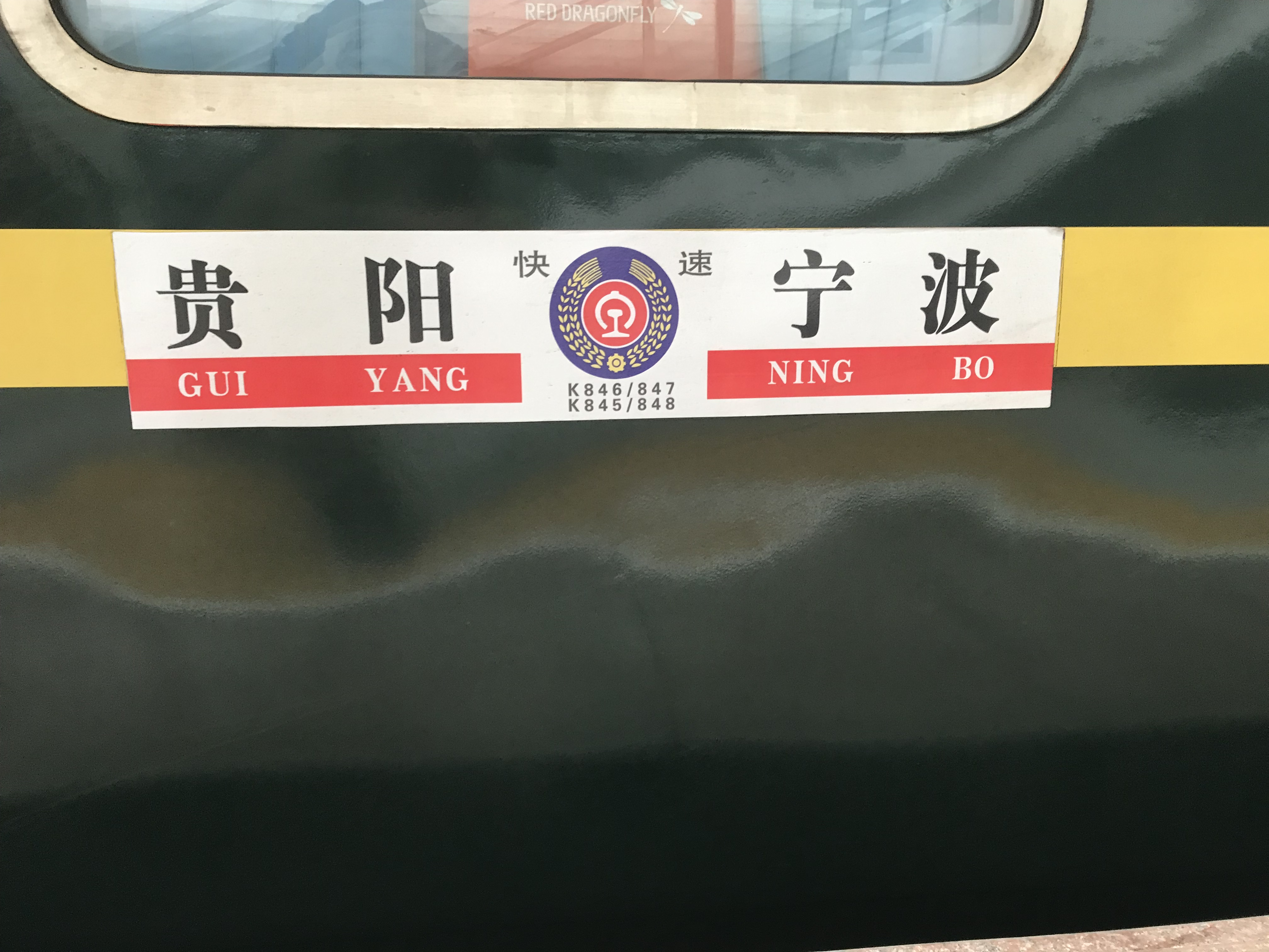 K845 6 7 8 between Ningbo and Guiyang, taken at Jinhua Station